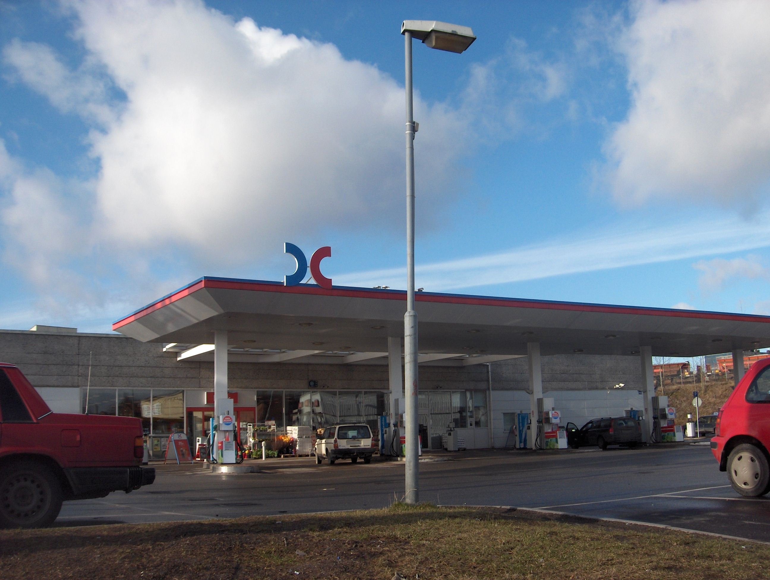 OKQ8 station in Johanneshov. Photographed by me in spring 2008, and edited in PhotoFitre 27th July, 2007.